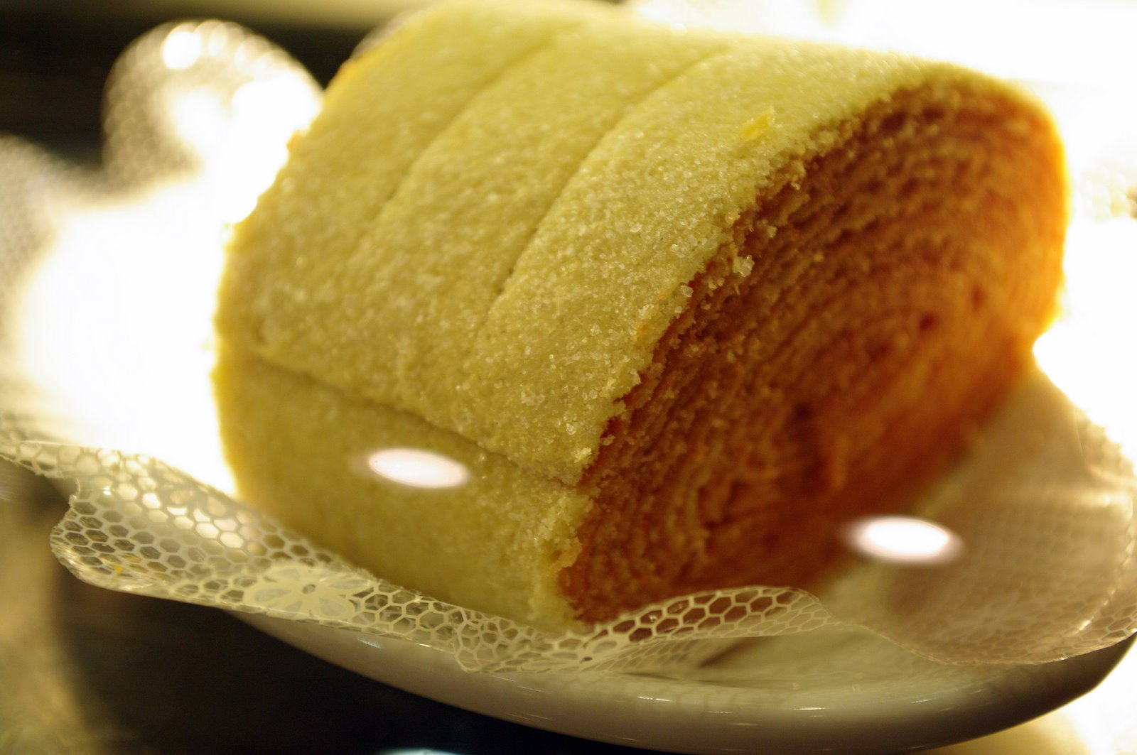 Bolo de rolo, typical Brazilian dessert, from Pernambuco state.